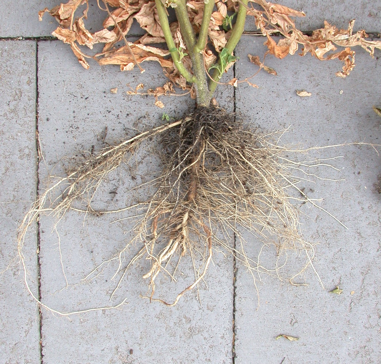 Tomatoes-Root System-South Garden Bed - Brown collar - rings on portions of roots. Brown on outer surface only - not down into cambium layer